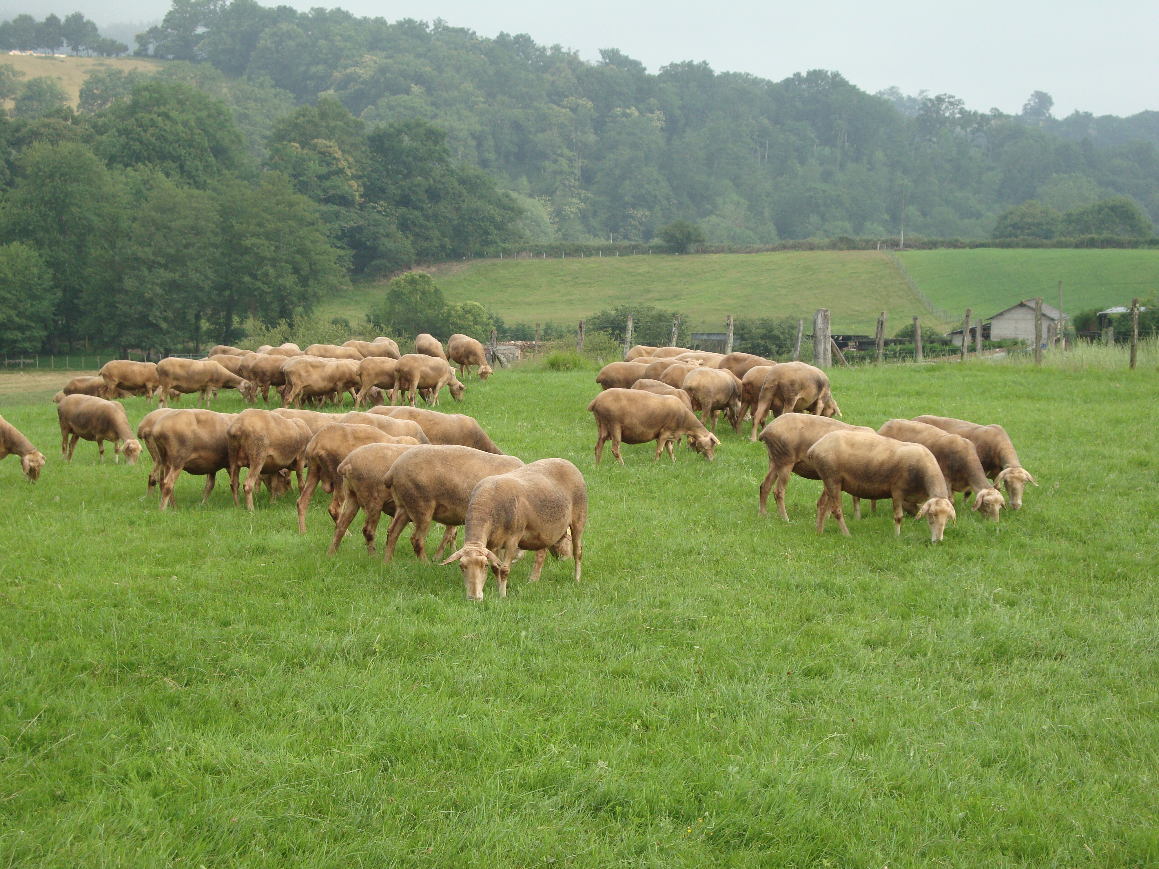 Idaux-Mendy_(Pyr-Atl,_Fr) landscape with sheep.